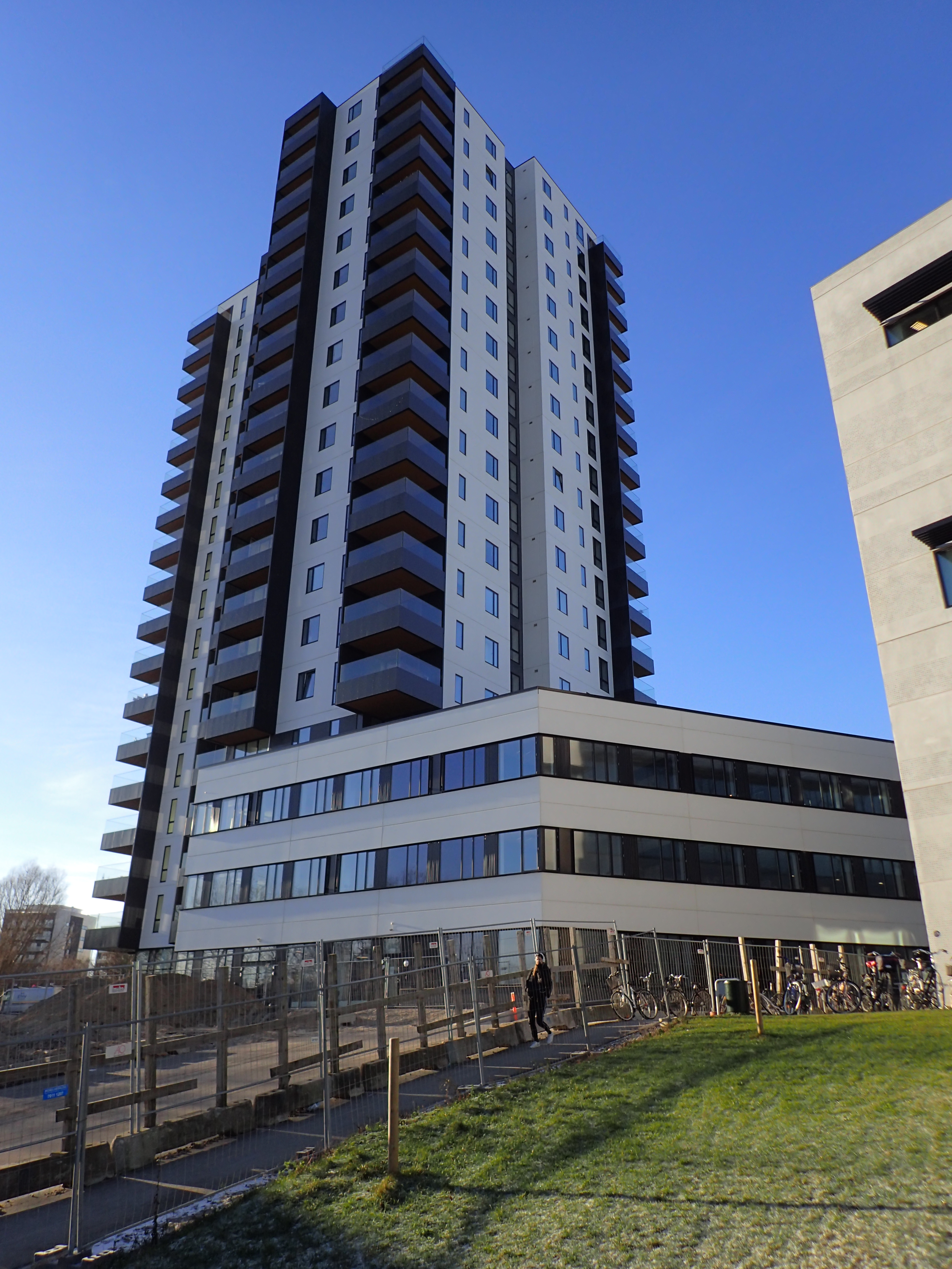 Ceres Panorama